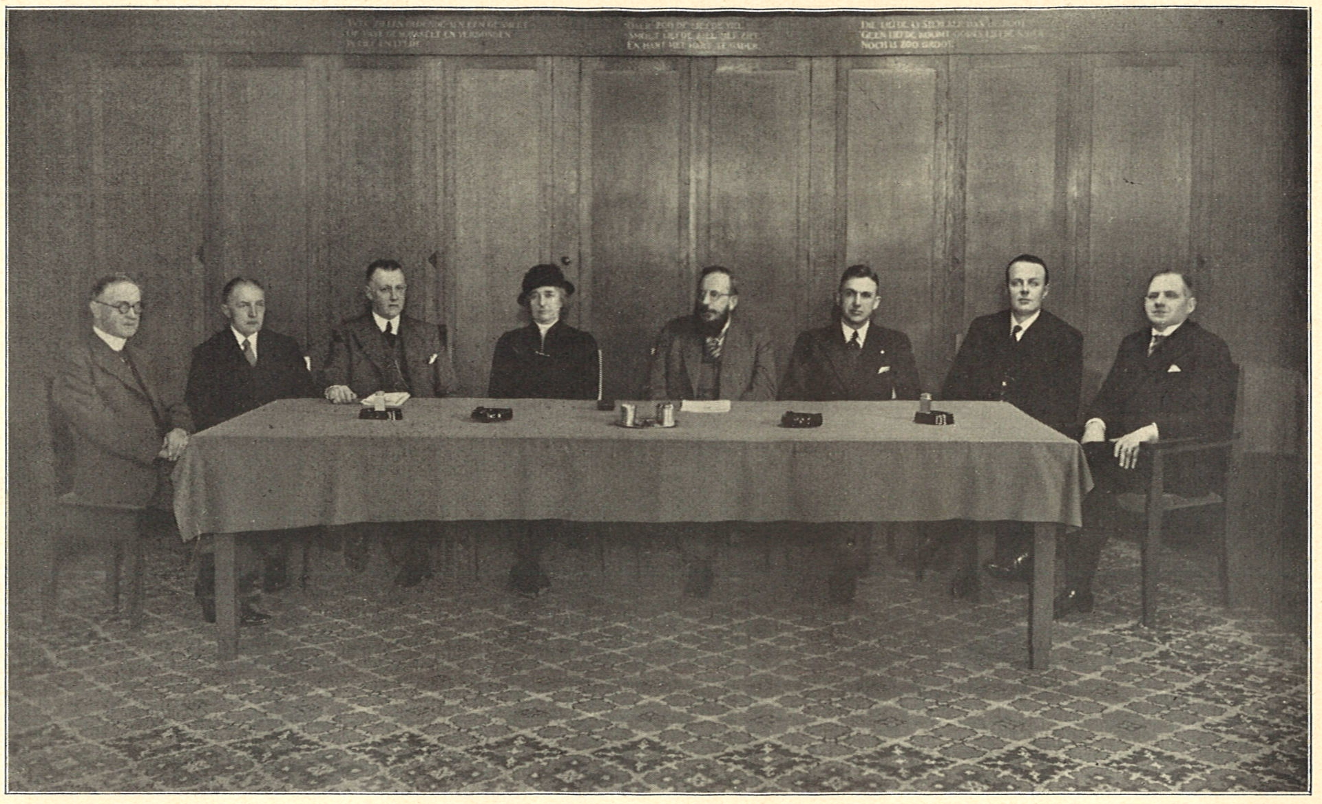 Social Council of Alkmaar, in the 30's of the 20st century, mrs. Cohen Stuart among the male board members